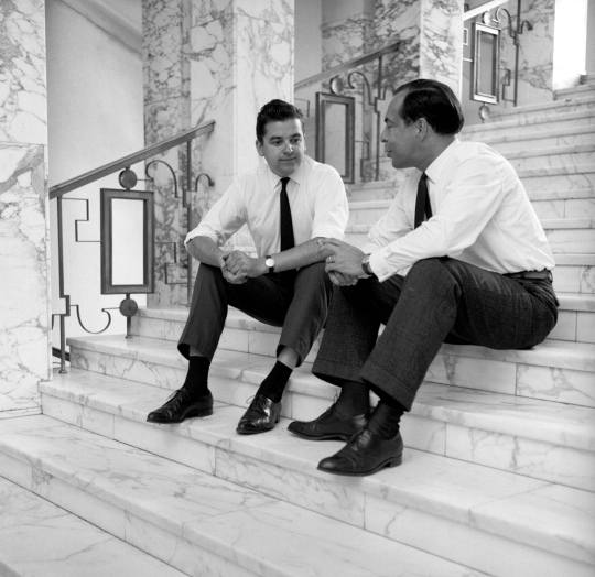 Opening of the Finnish autumn parliament session September 3, 1963. MP Georg C. Ehrnrooth (Swedish People's Party) and jurist Kai Korte.